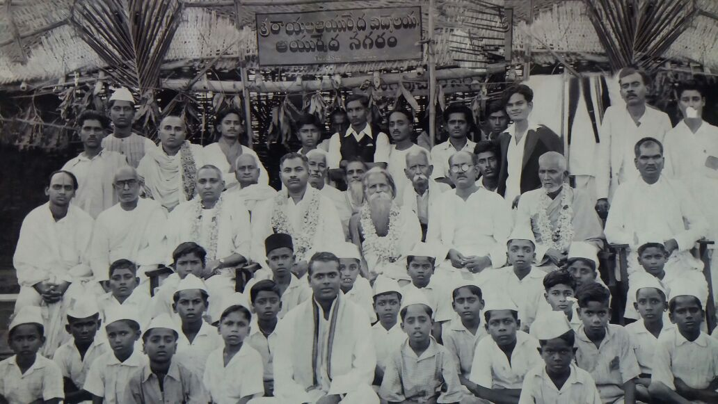 Moola Narayana Swamy at Rayala Ayurveda University he funded